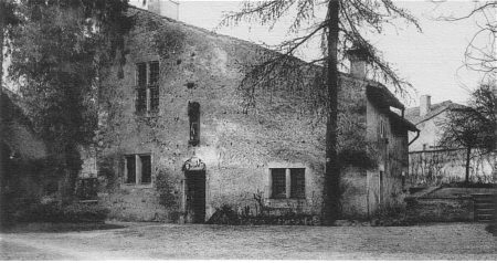 Home of Joan